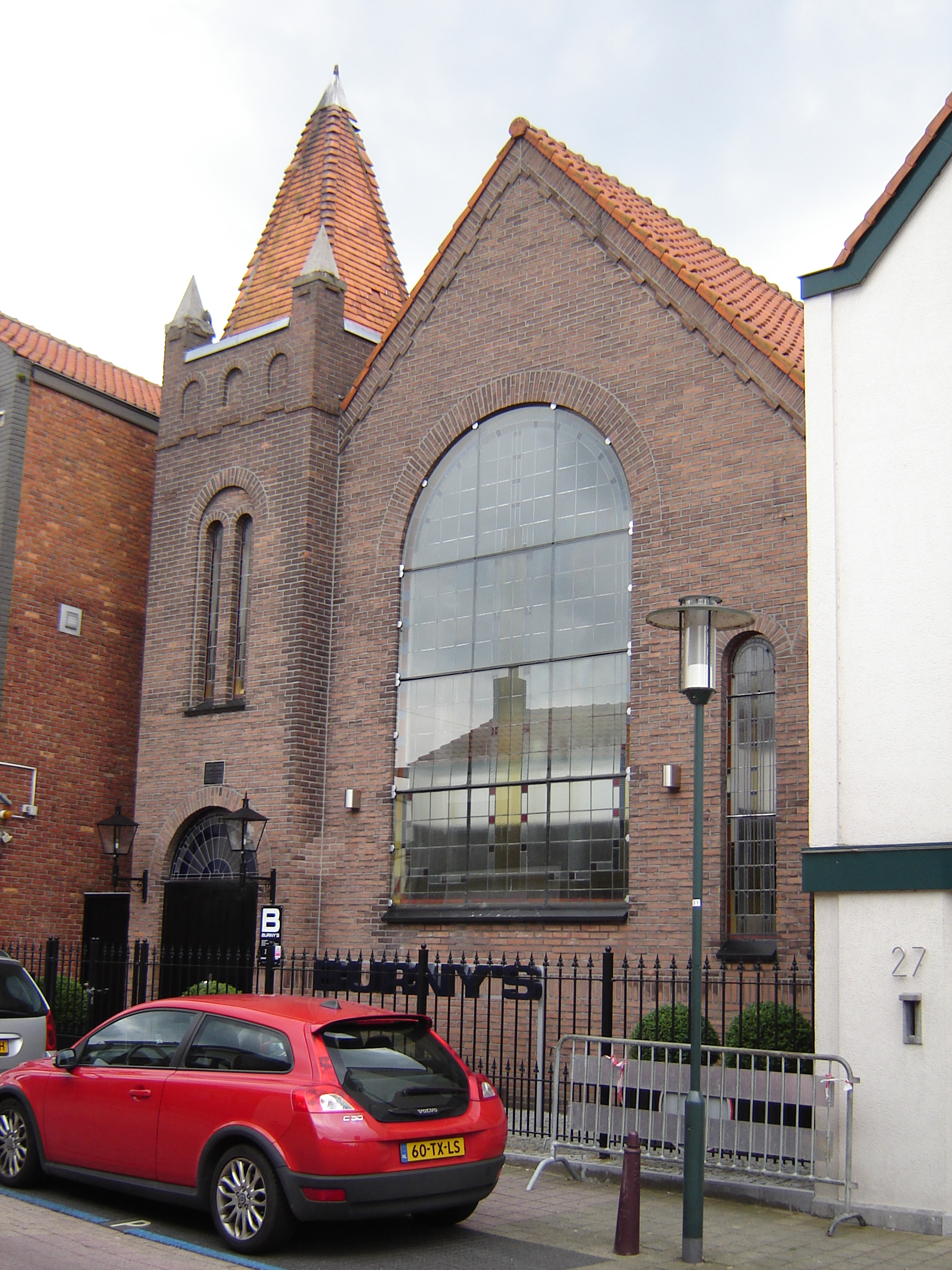 Former church of the Netherlands Reformed Congregations (aka Bakkerkerkje) in Axel. Axel, Terneuzen, Zeeland, Netherlands.